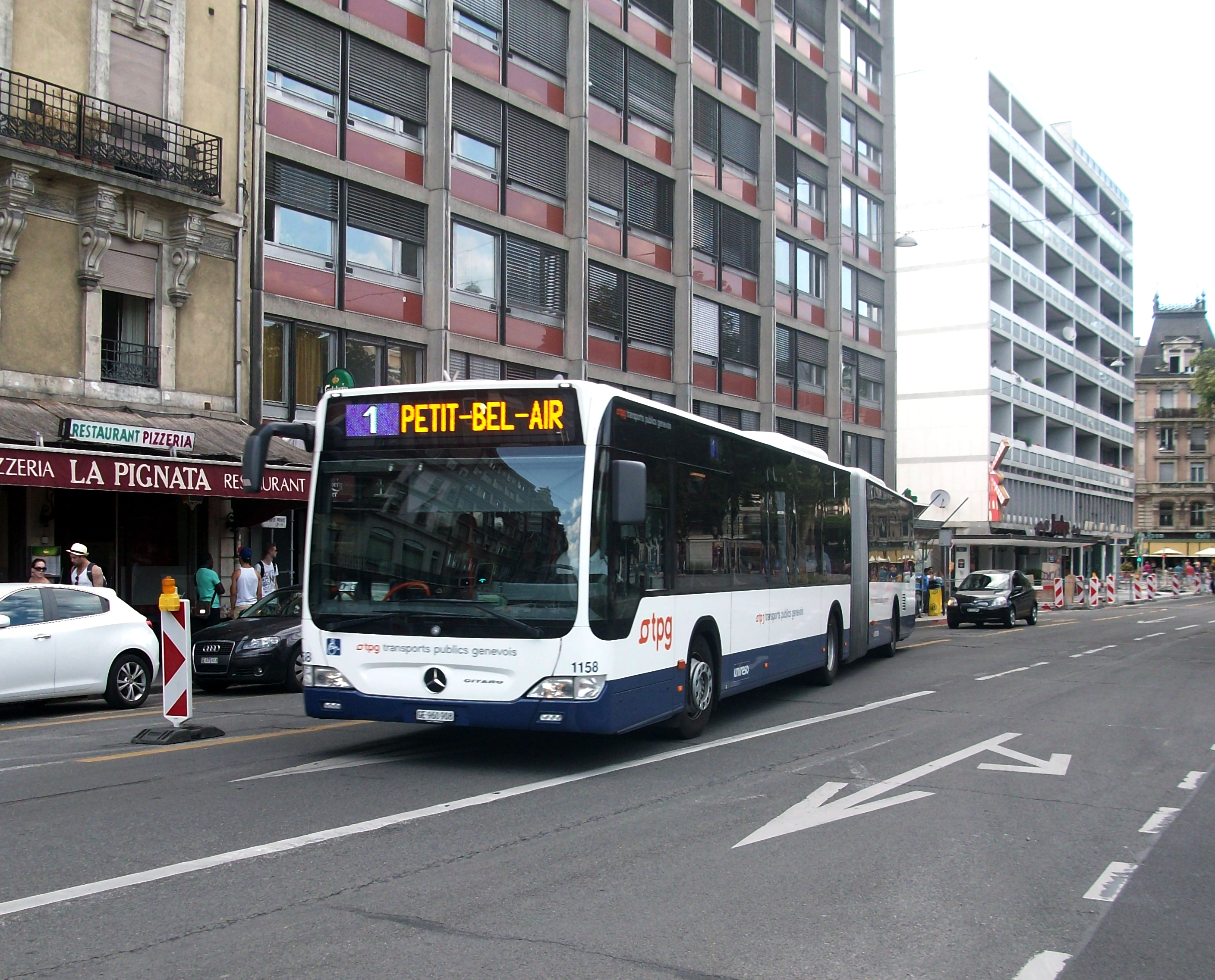 Mercedes-Benz Citaro G (TPG), Geneva